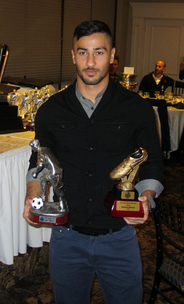 Molham Babouli of Toronto FC Academy in on November 7, 2014